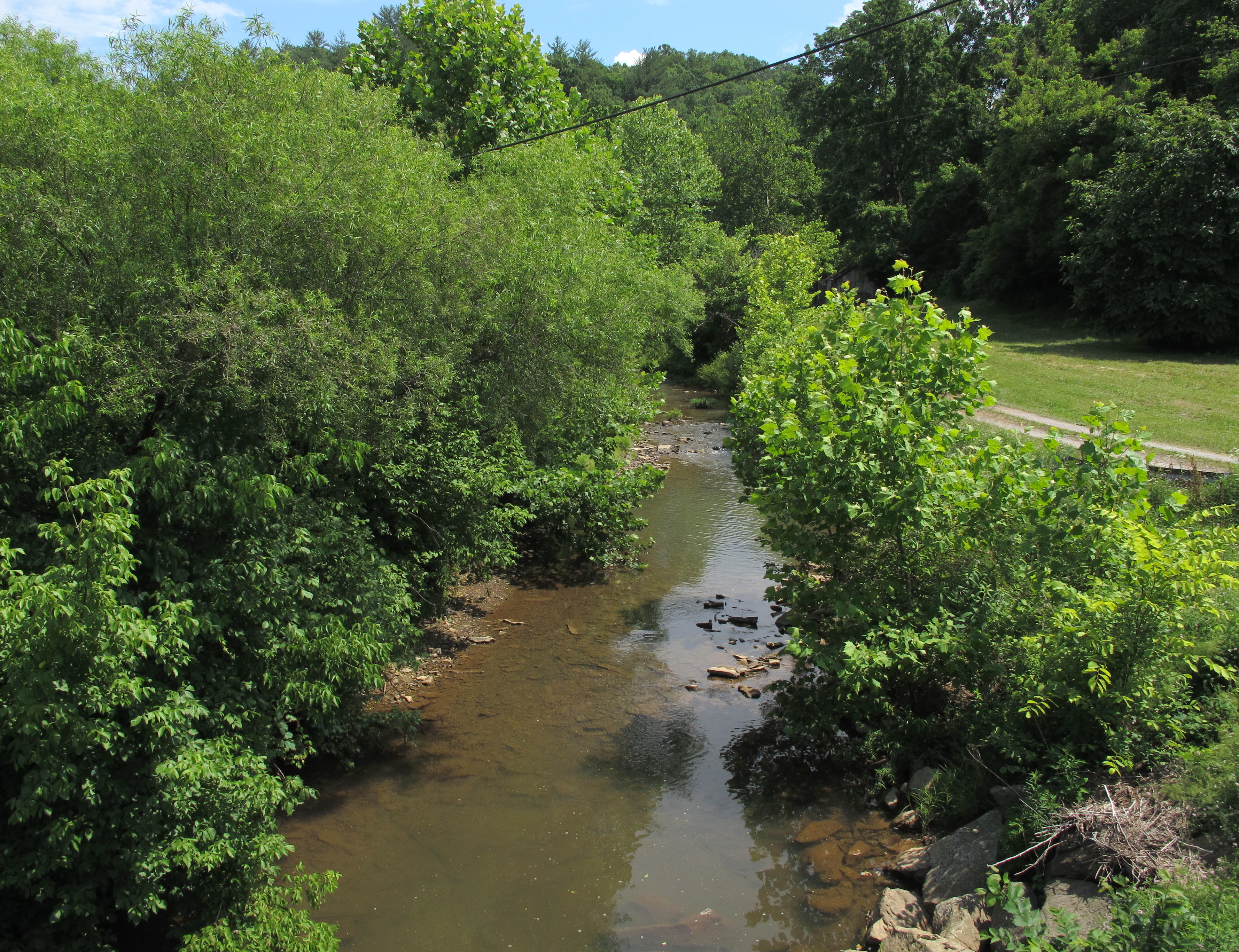 The Elk Fork as viewed upstream from Elk Fork Road (County Road 11) in Tyler County, West Virginia.